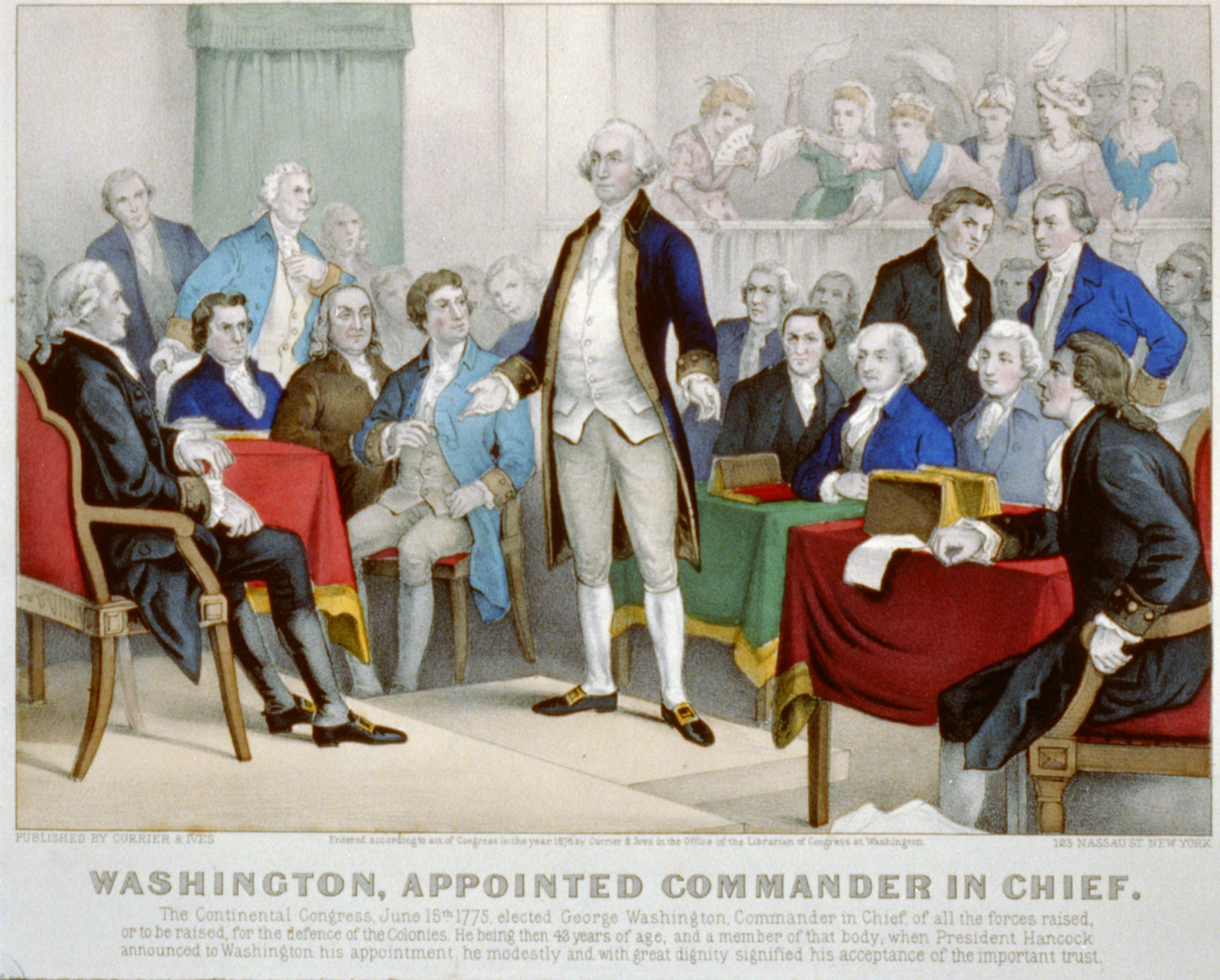 George Washington accepting command of the Continental Army. George Washington (middle) surrounded by members of the Continental Congress, lithograph by Currier & Ives, c. 1876. Currier & Ives Collection, Library of Congress, Neg. No. LC-USZC2-3154